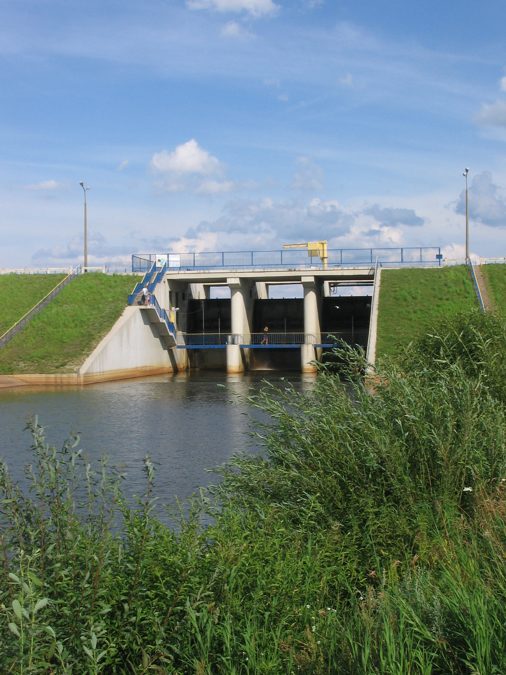 Dam in Bondary, Poland, on Narew river / Siemianówka Reservoir